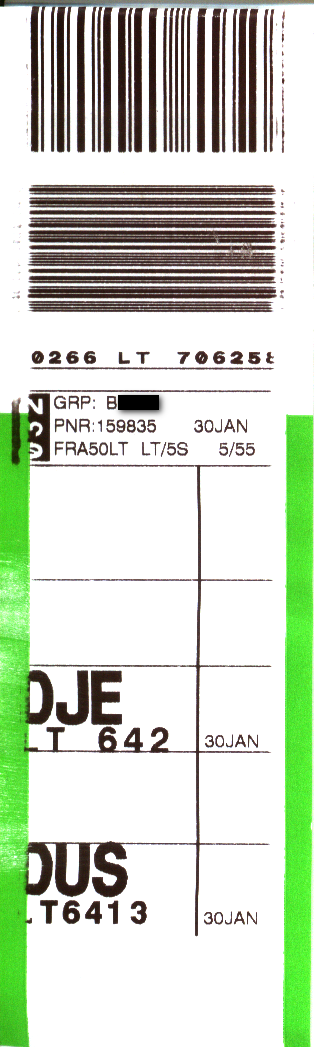 A sample of luggage label from Fraport